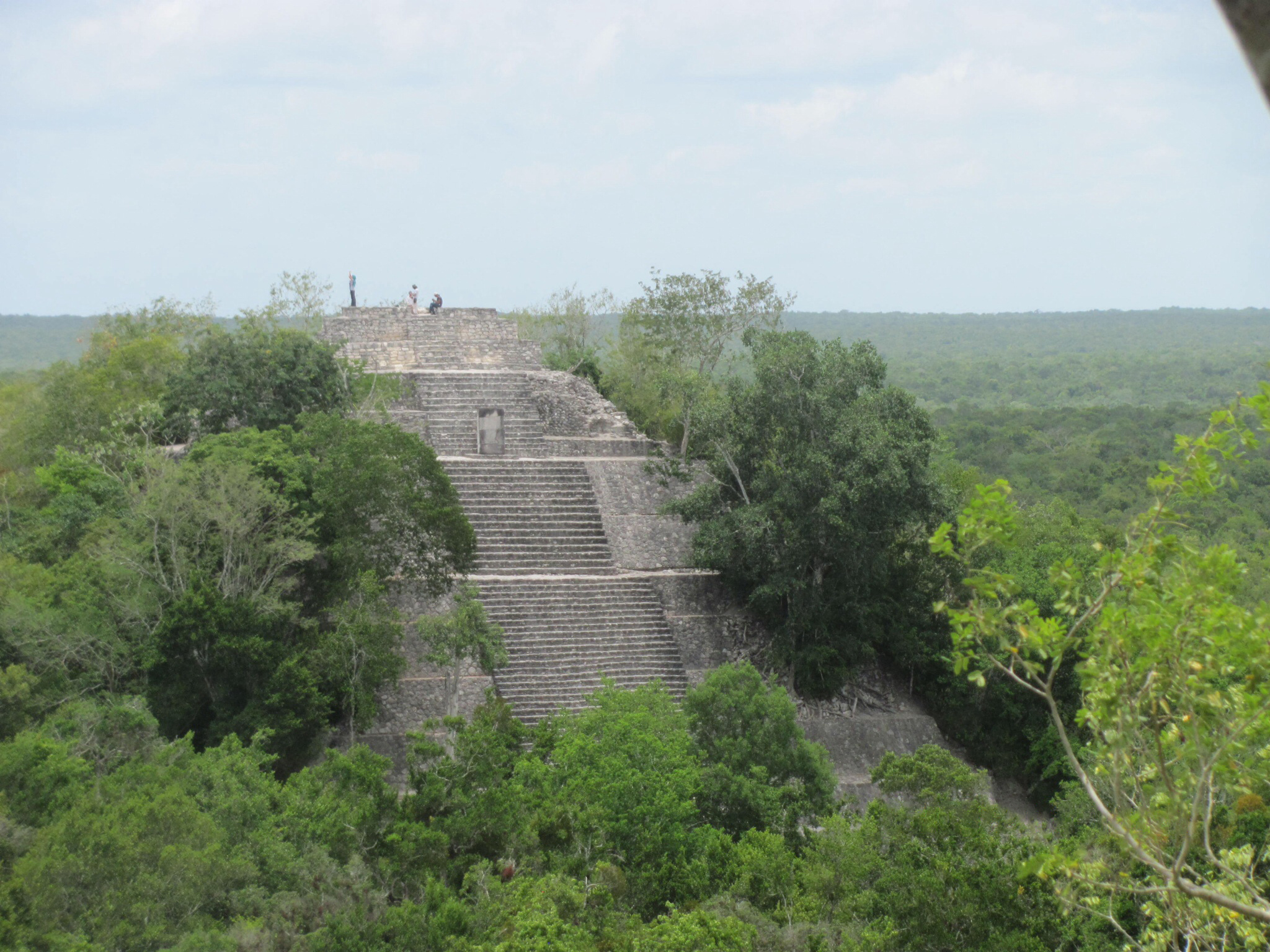 Structure I, gezien vanaf Structure II